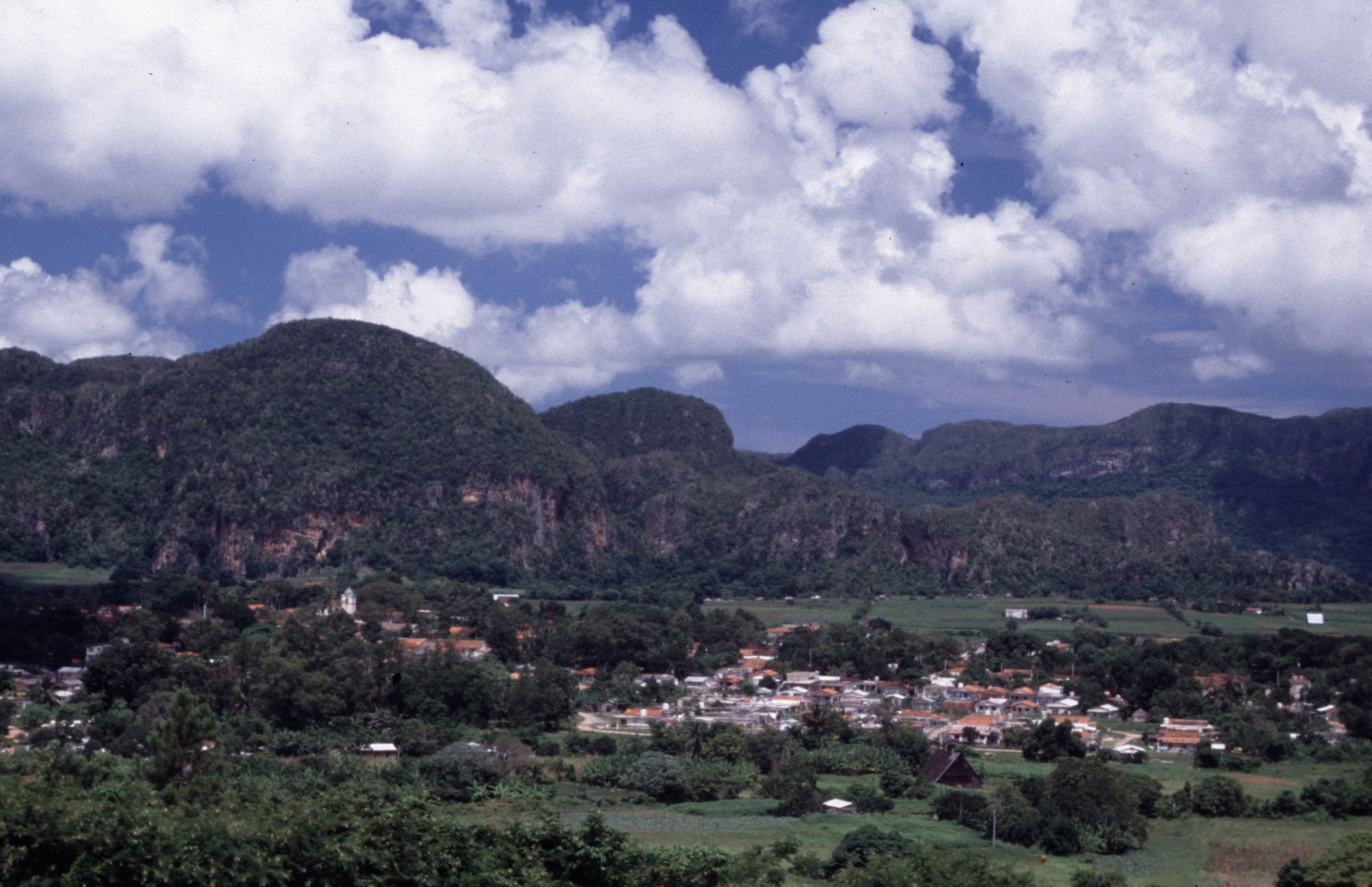 Village Vinales in Cuba